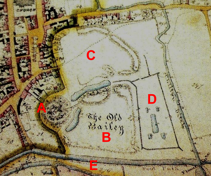 Tithe Map of Clare, including castle, 1846